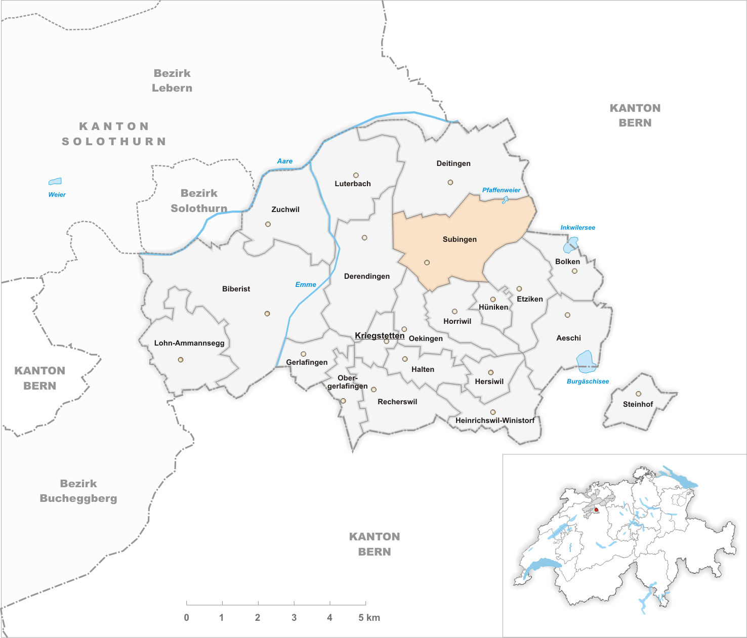 Municipality Subingen